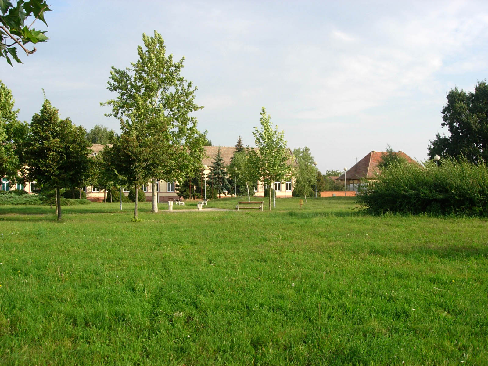 Park in the centre of Novi Kozarci.